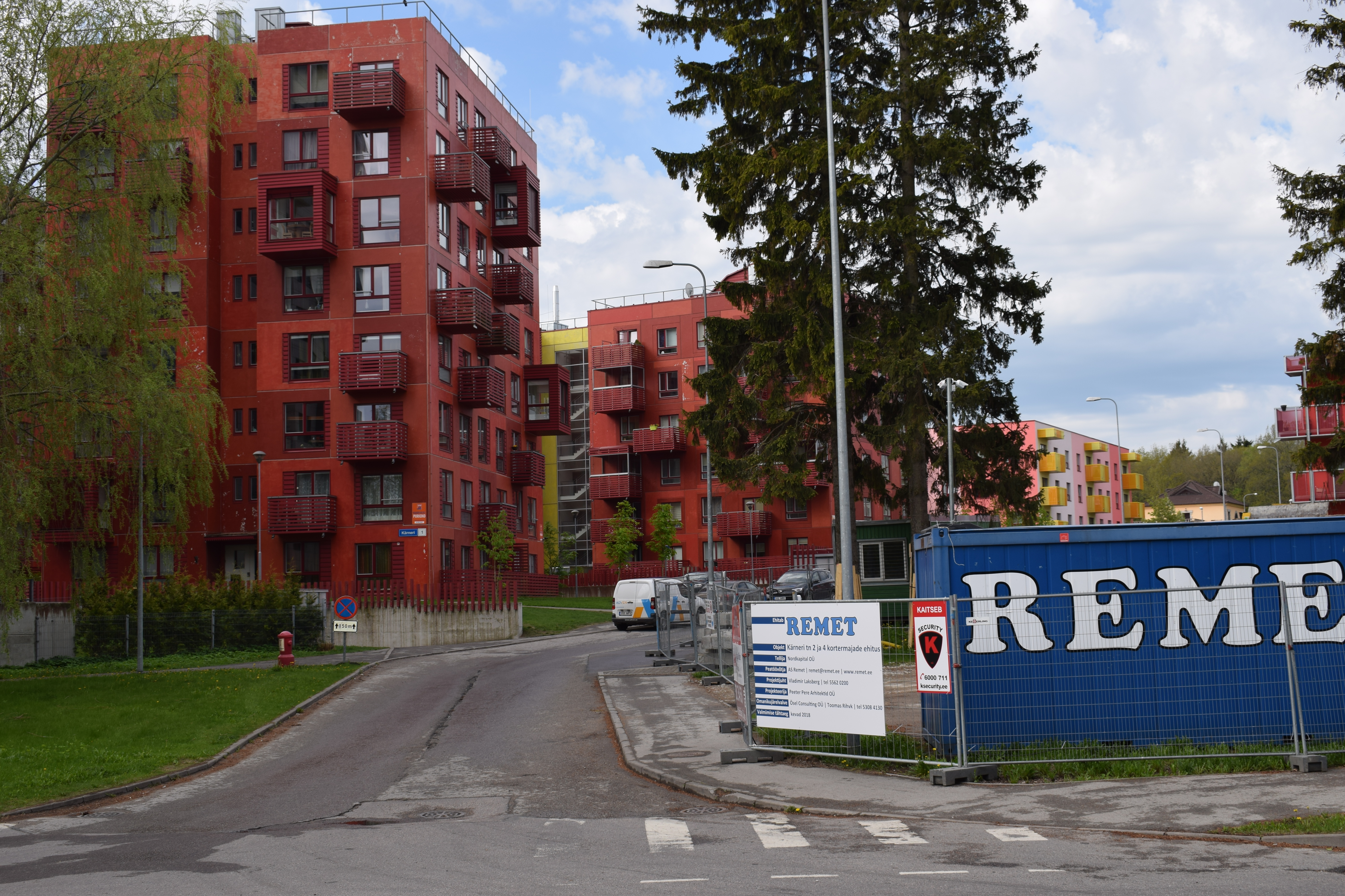 Kärneri tänav